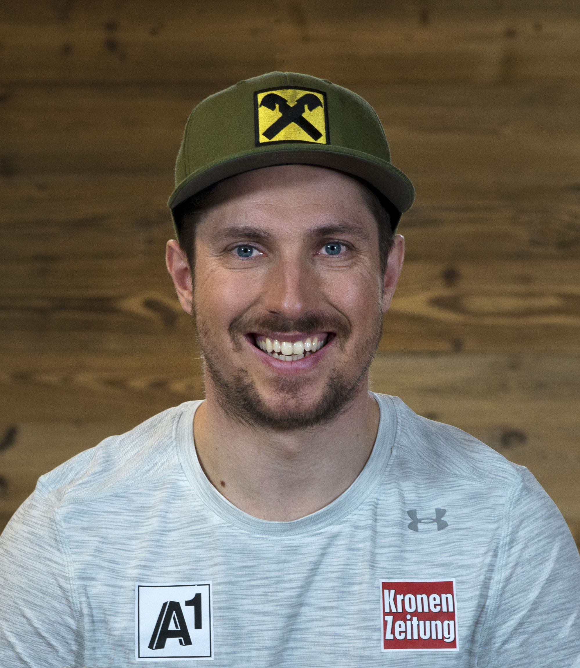 05.04.2018, Salzburg, AUT, Fotoshooting 2018 mit Marcel Hirscher (AUT), Gesamtweltcupsieger. Marcel Hirscher (AUT) // overall worldcup champion Marcel Hirscher (AUT) during a photoshooting in Salzburg, Austria on 2018/03/19. BILDSYMPHONIE © 2018, PhotoCredit: BILDSYMPHONIE